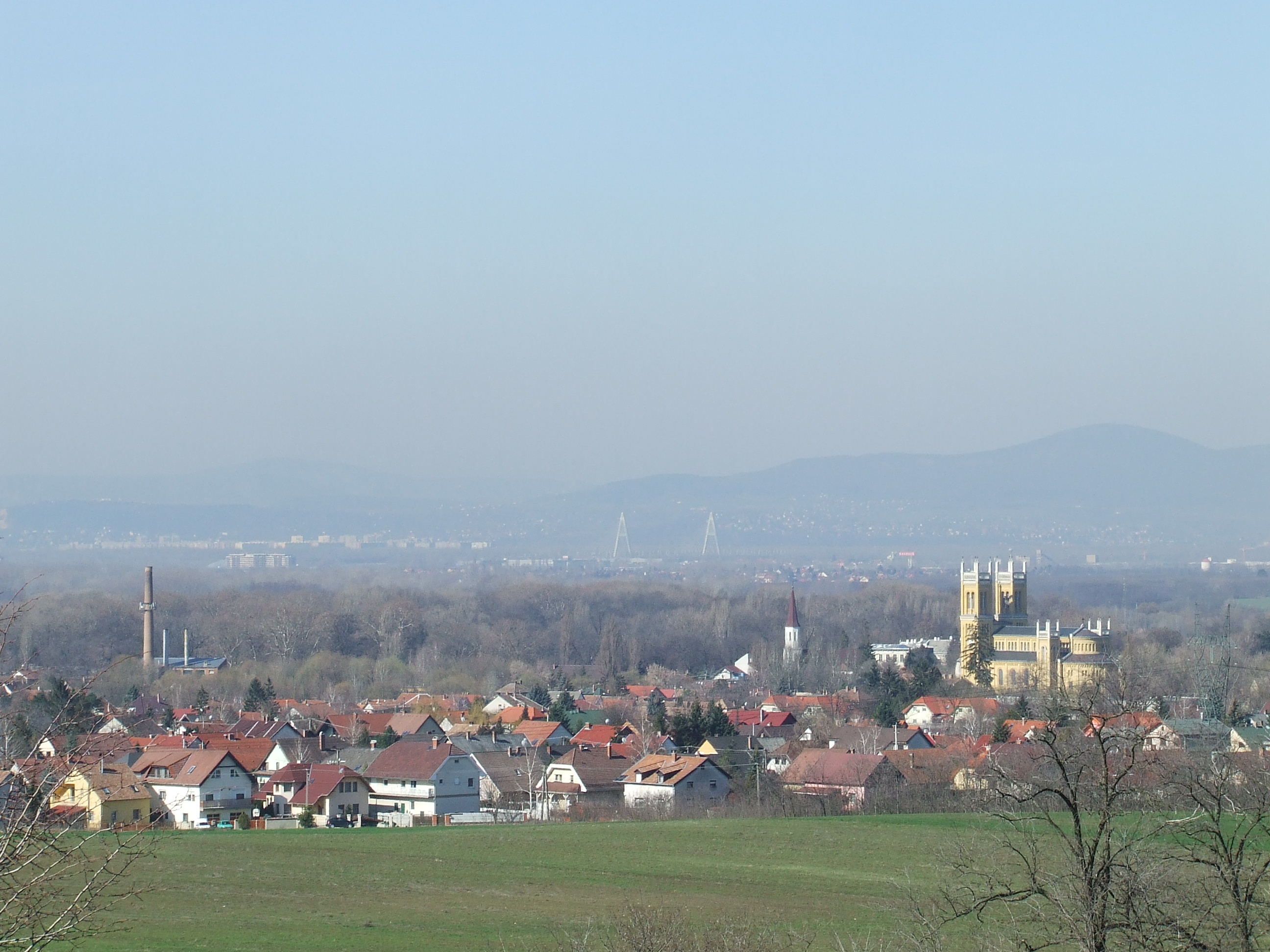 Fóti kilátás